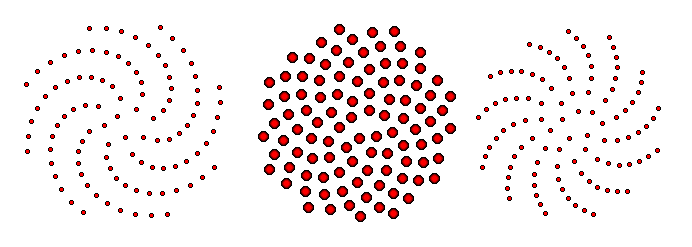 Illustration of pattern of florets in a sunflower following Vogles model. Made with SingSurf and JavaView, post processed with gimp/inkscape. Author: R Morris